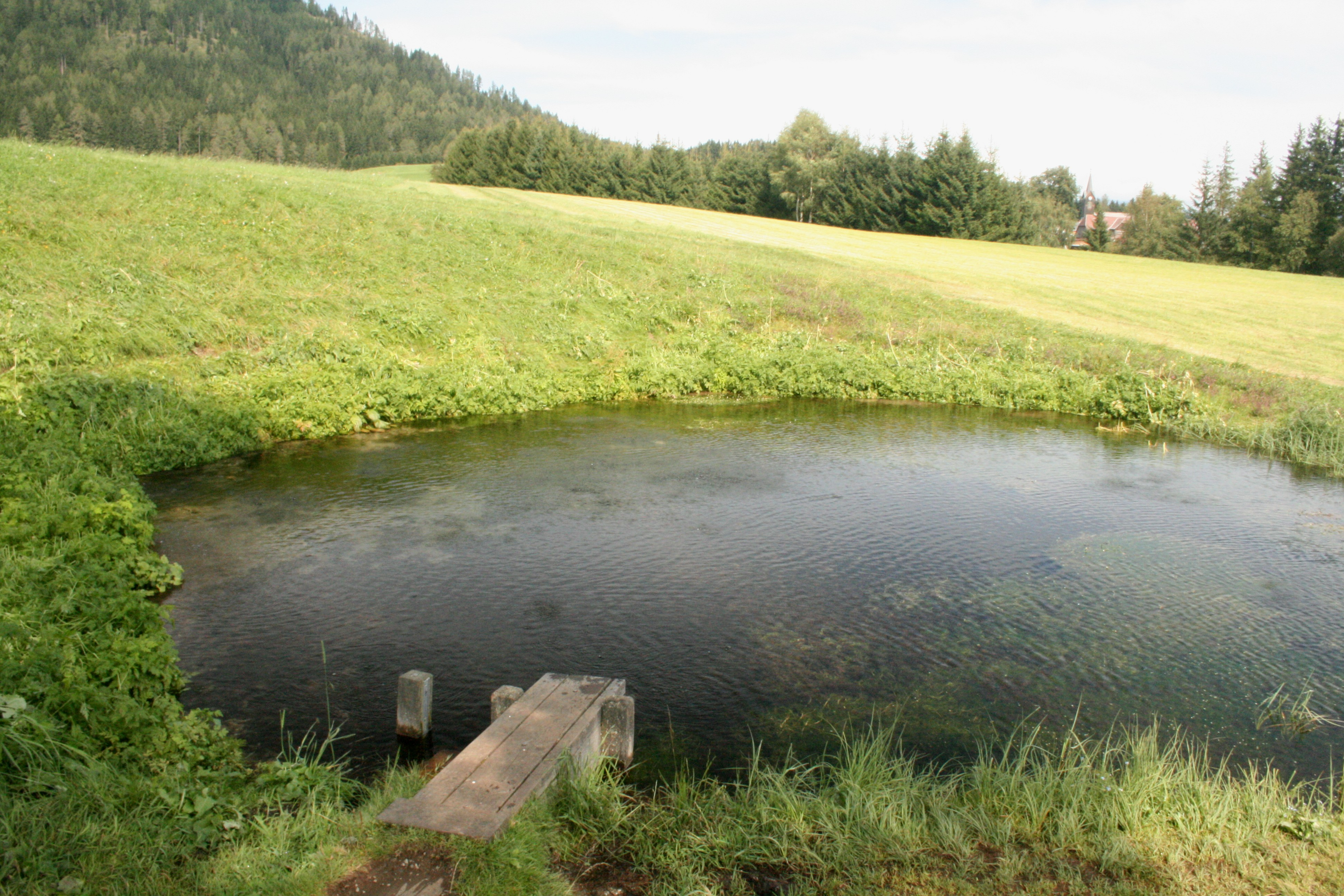 "Ursprungsquelle" in Zeutschach in Styria, Austria, Europe